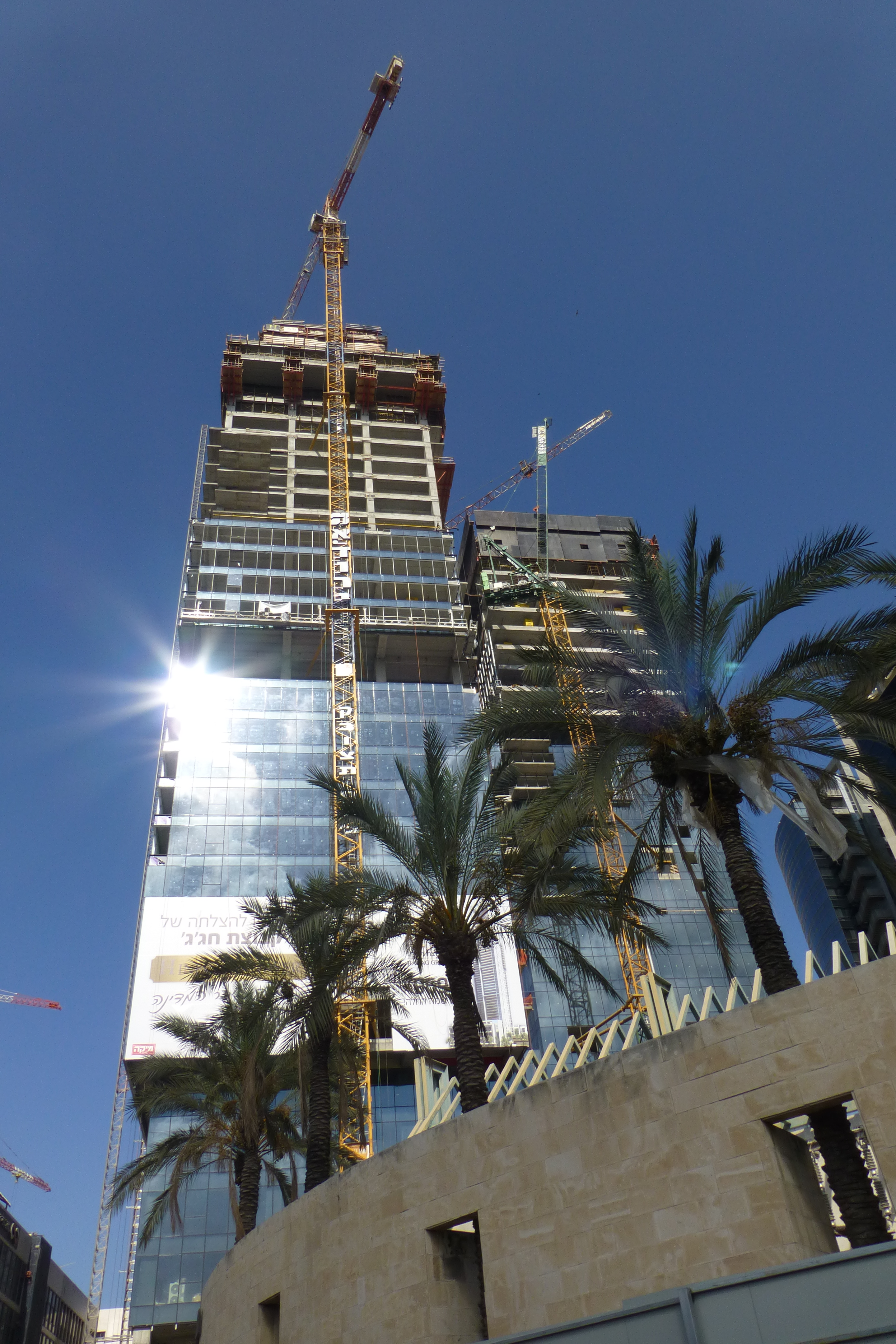 Haarbaa Street